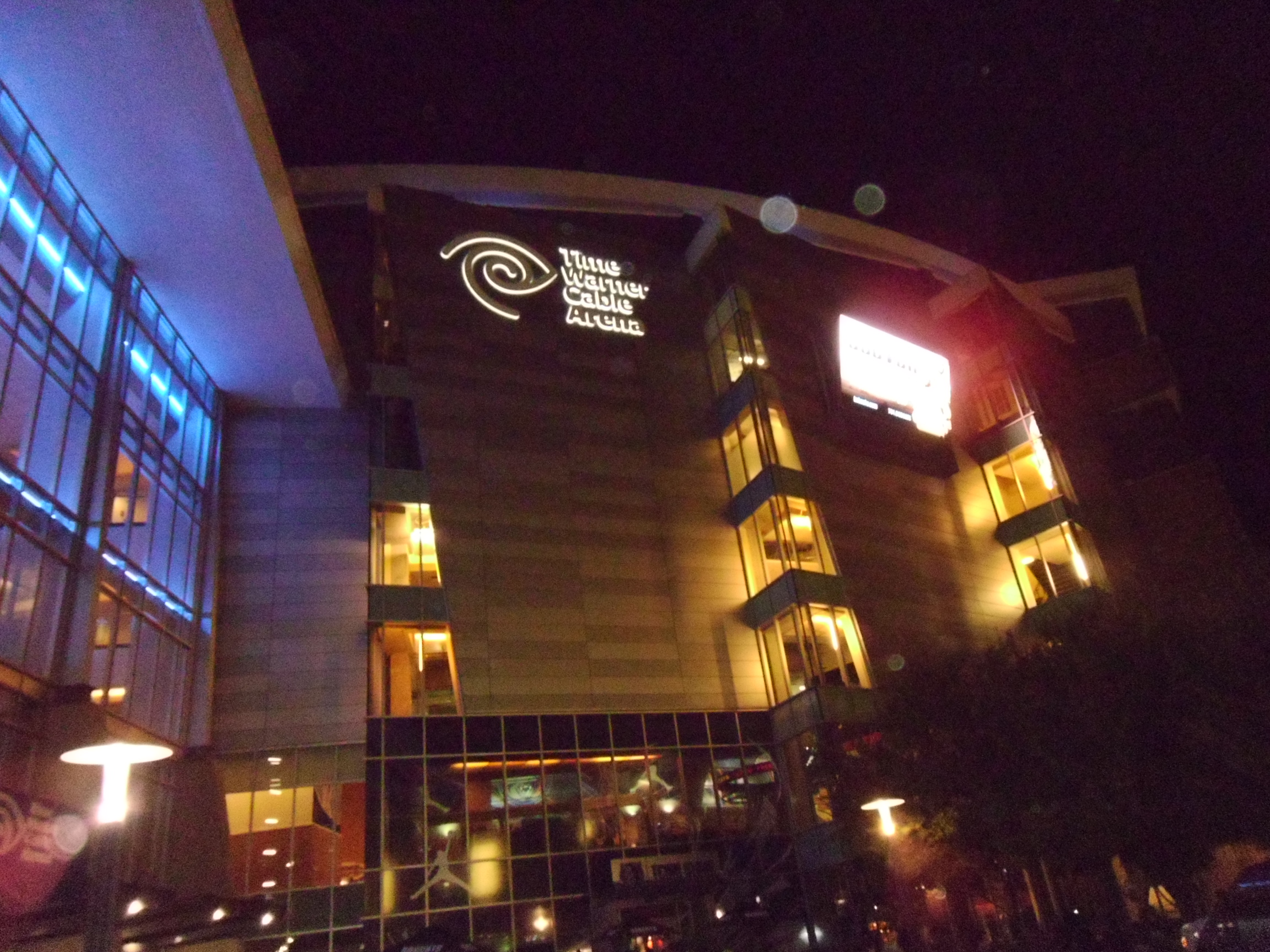 Outside Time Warner Cable Arena in Charlotte on November 10, 2012.